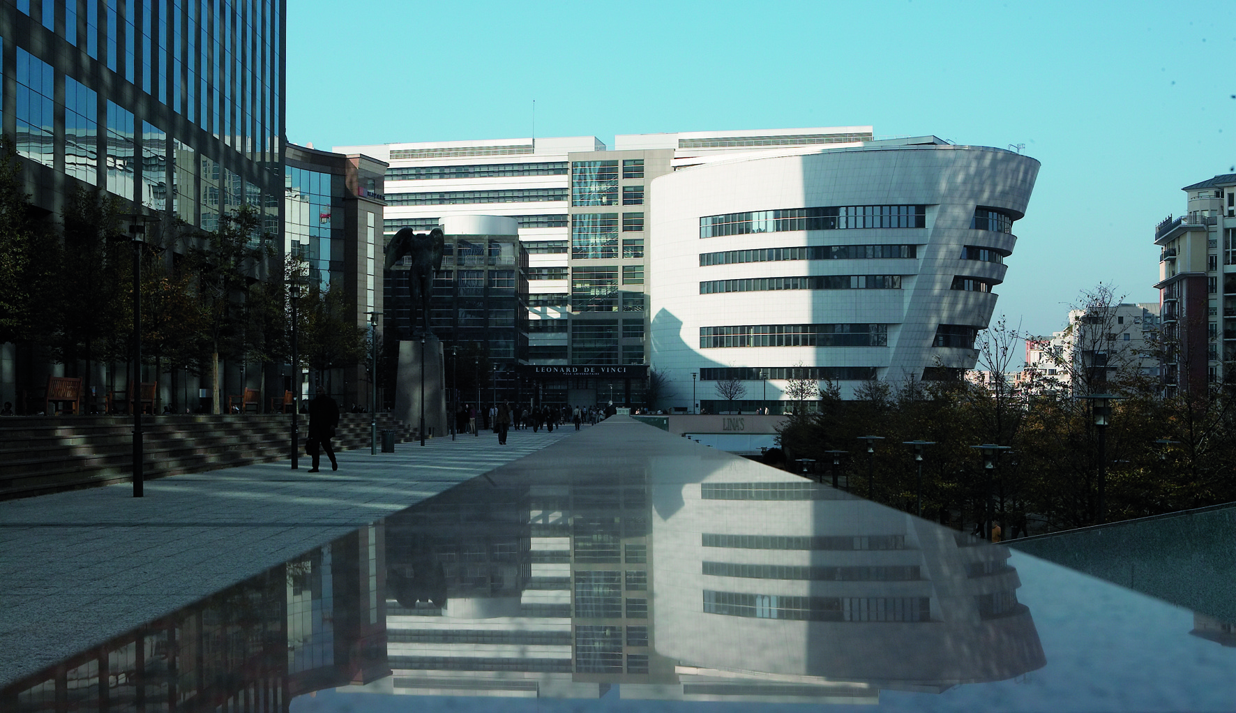 SKEMA Paris Campus